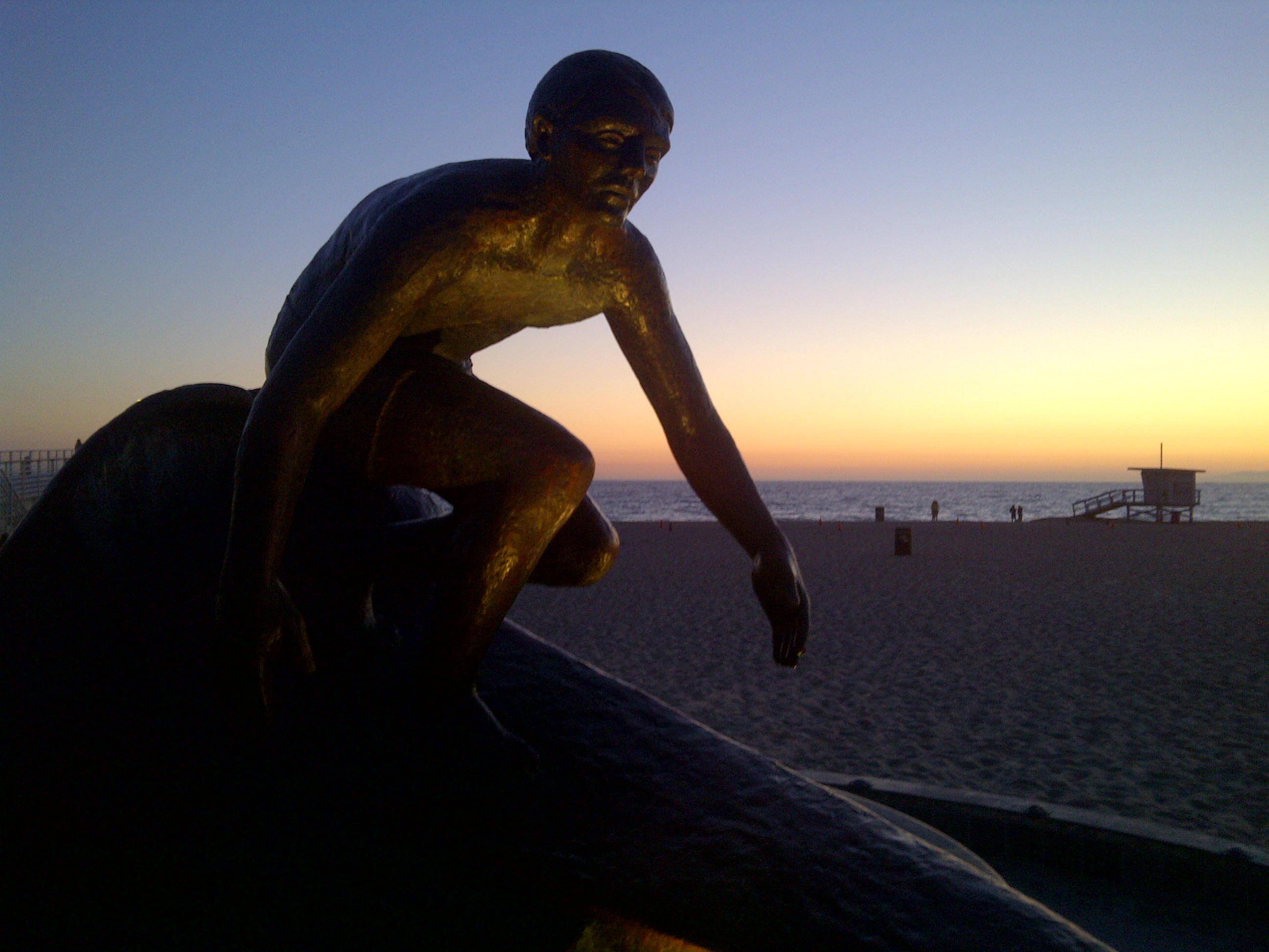 A statue of a surfer at Hermosa Beach Pier, California. The statue is a display of surfer and lifeguard Tim Kelly who lived from 1940 to 1964.